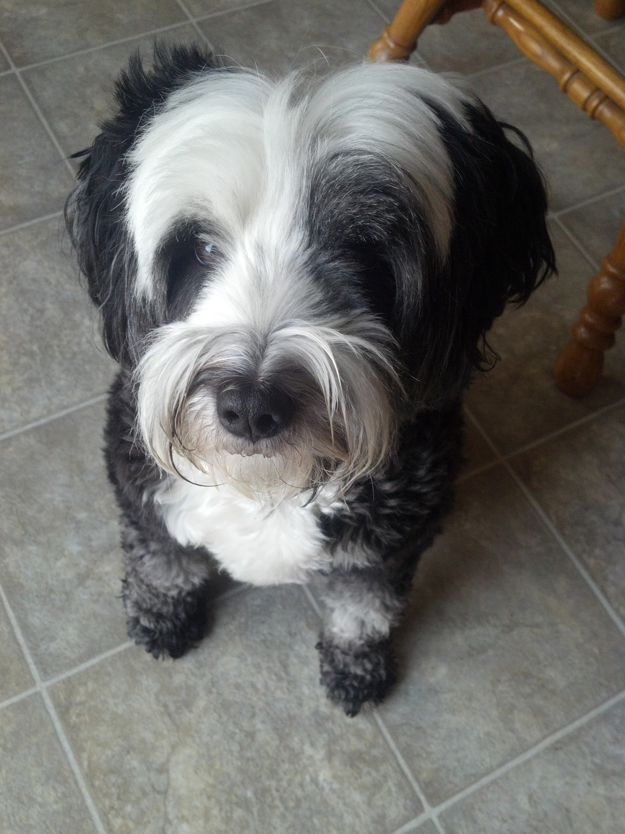 Seated four year old female Tibetan